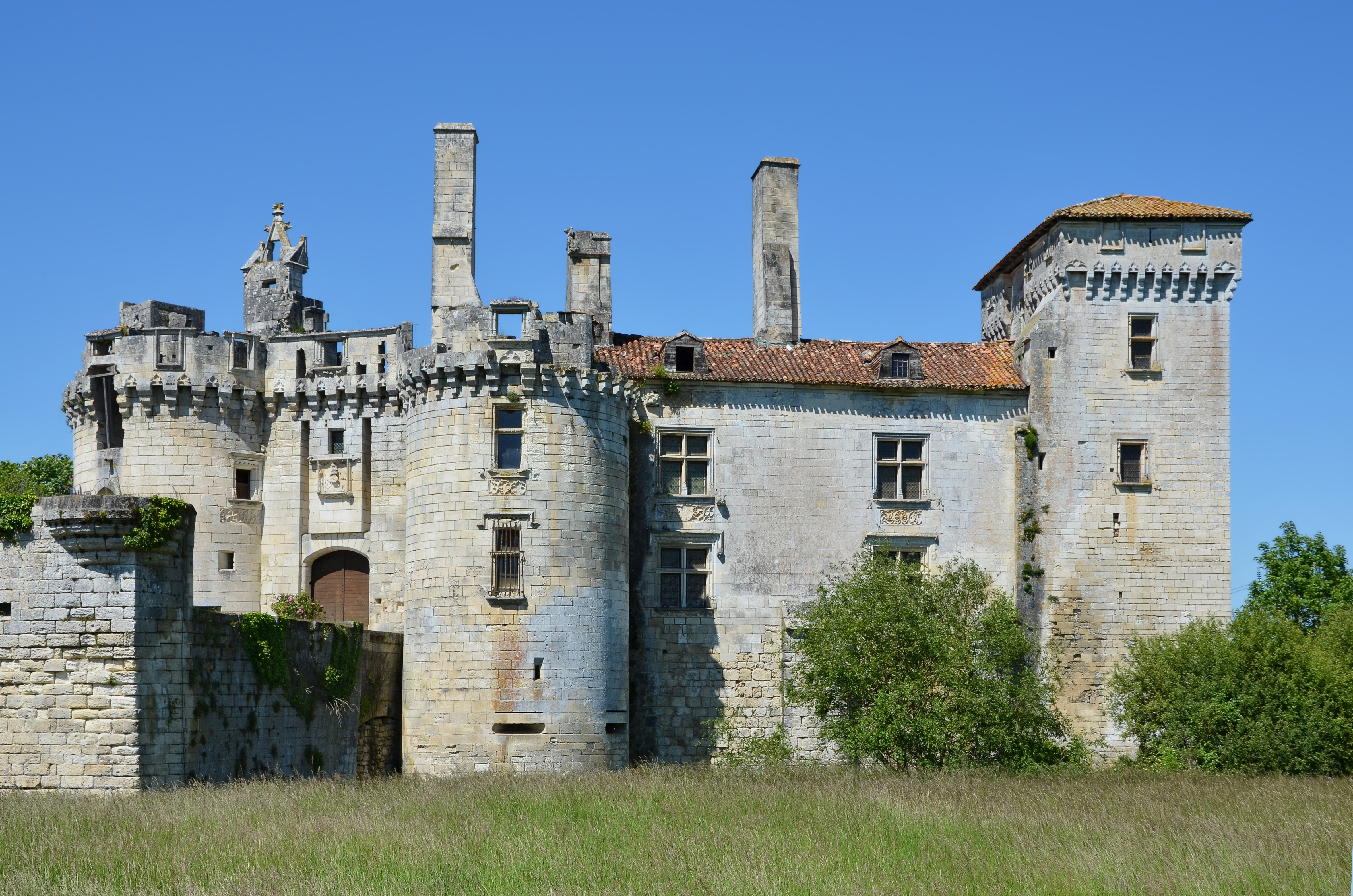 Residential part of the castle (XIVth and XVth-centuries), Mareuil, Dordogne, France.